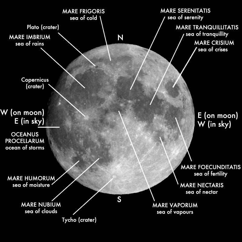 Lunar nearside with major maria and craters labeled